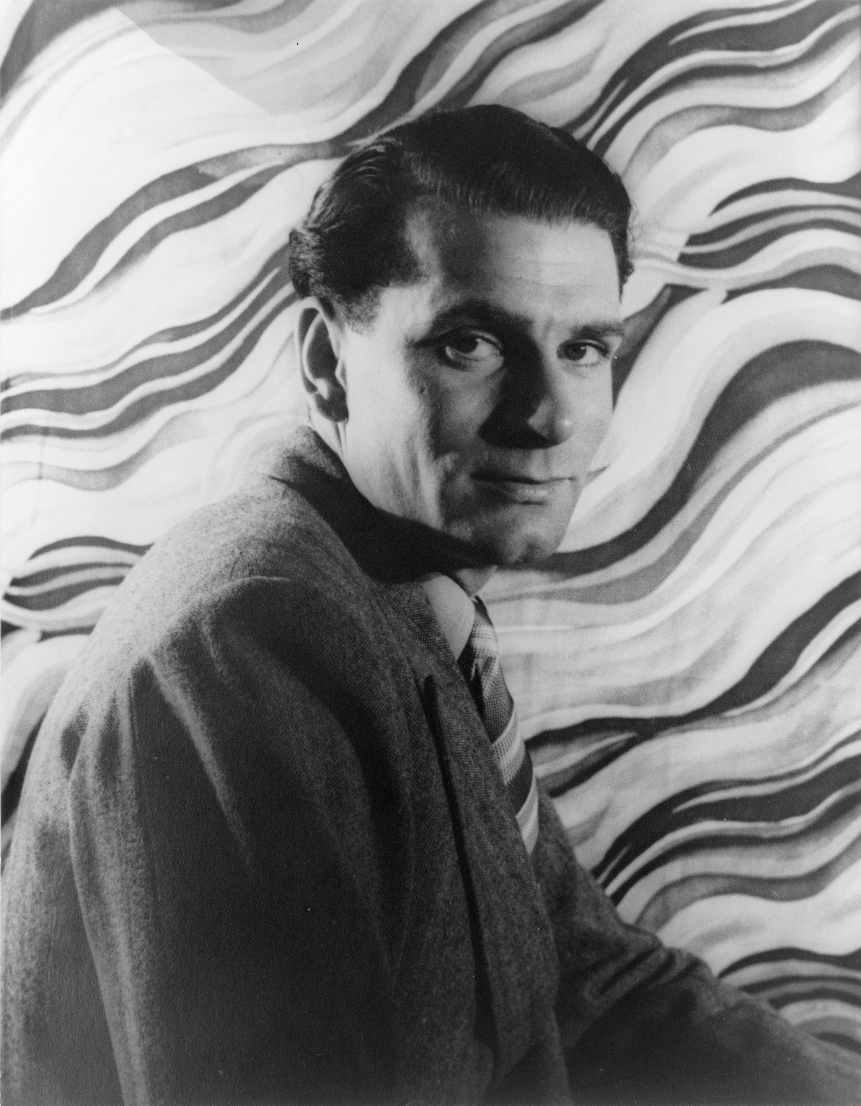 Photo of Laurence Olivier by Carl Van Vechten.